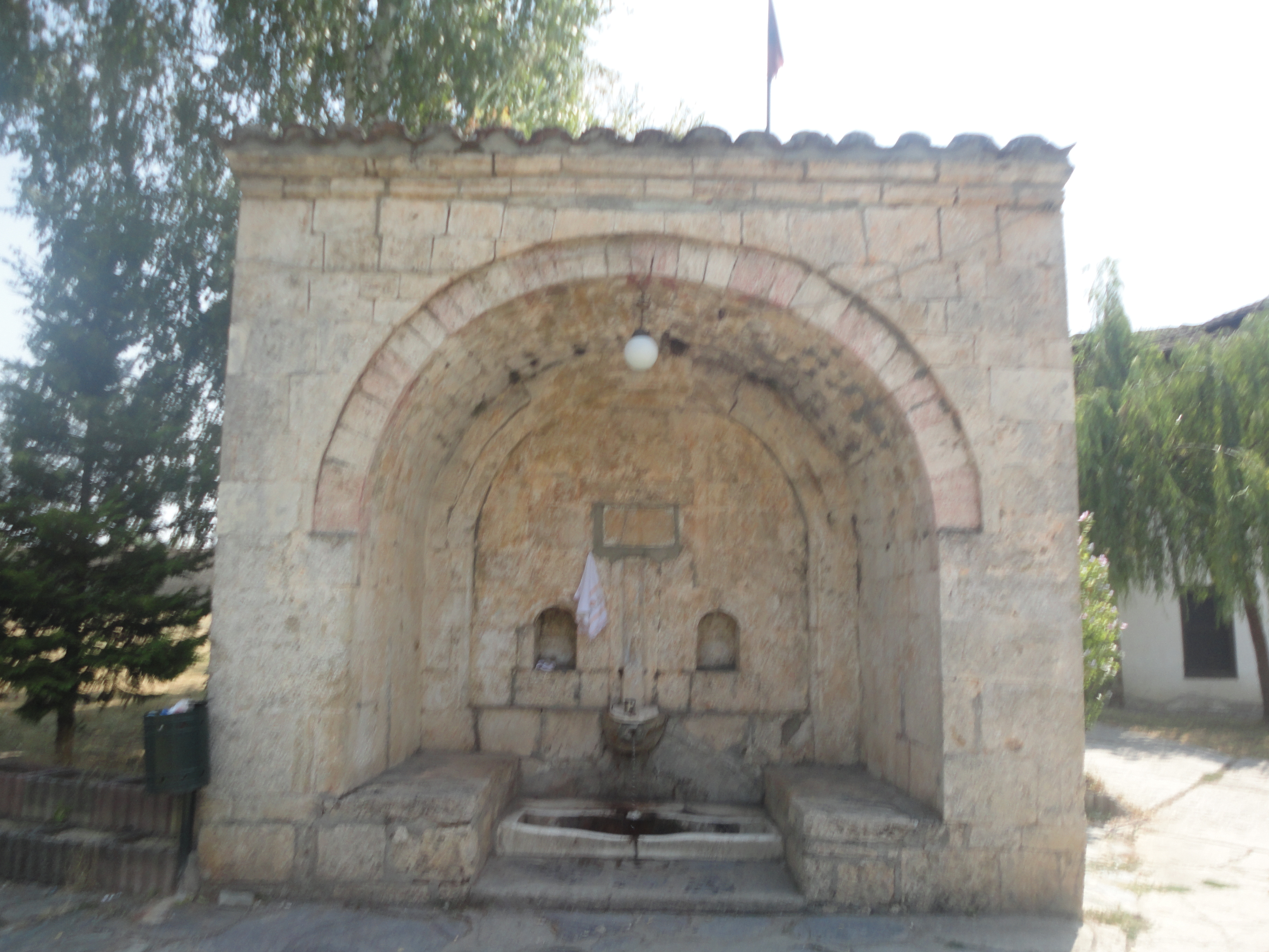 Lion Fountain on Arabati Baba Tekke, Tetovo, MacedoniaTürkçe: Aslanlı Çeşme, Harabati Baba Tekke, Kalkandelen, Makedonya